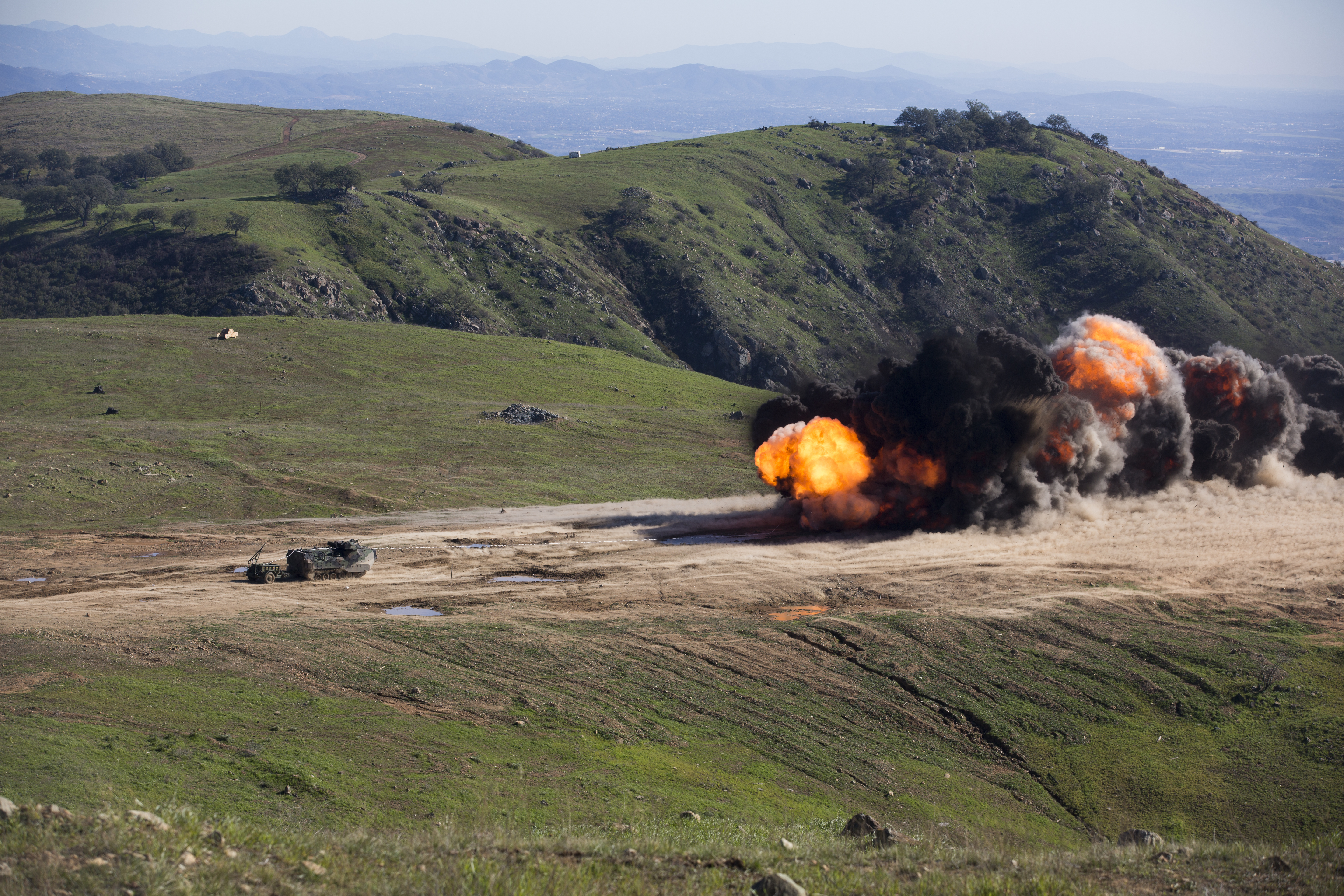 U.S. Marines and Japan Ground Self-Defense Force soldiers detonate a Mine Clearing Line Charge to clear an obstacle during a breaching training event aboard Marine Corps Base Camp Pendleton, Calif., Feb. 4, 2016. This training was a part of Exercise Iron Fist, an annual bilateral training exercise conducted by the USMC and JGSDF to refine our combined amphibious operational capabilities. Unit: 11th Marine Expeditionary Unit